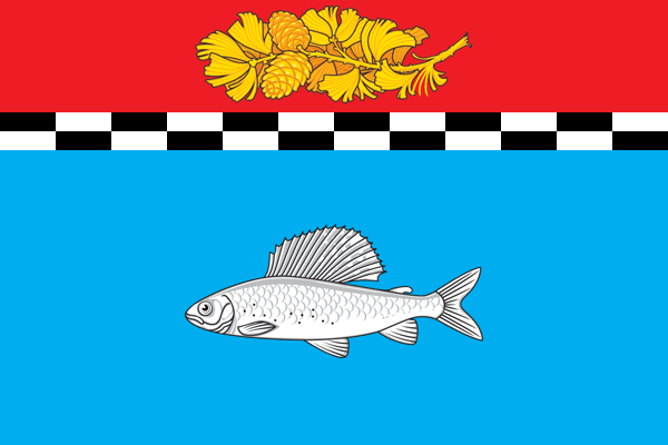 Flag of Ulkanskoe urban settlement, Irkutsk Oblast, Russia